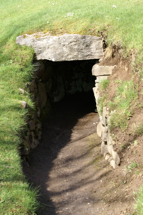 Culsh Earth House, Aberdeenshire, Scotland